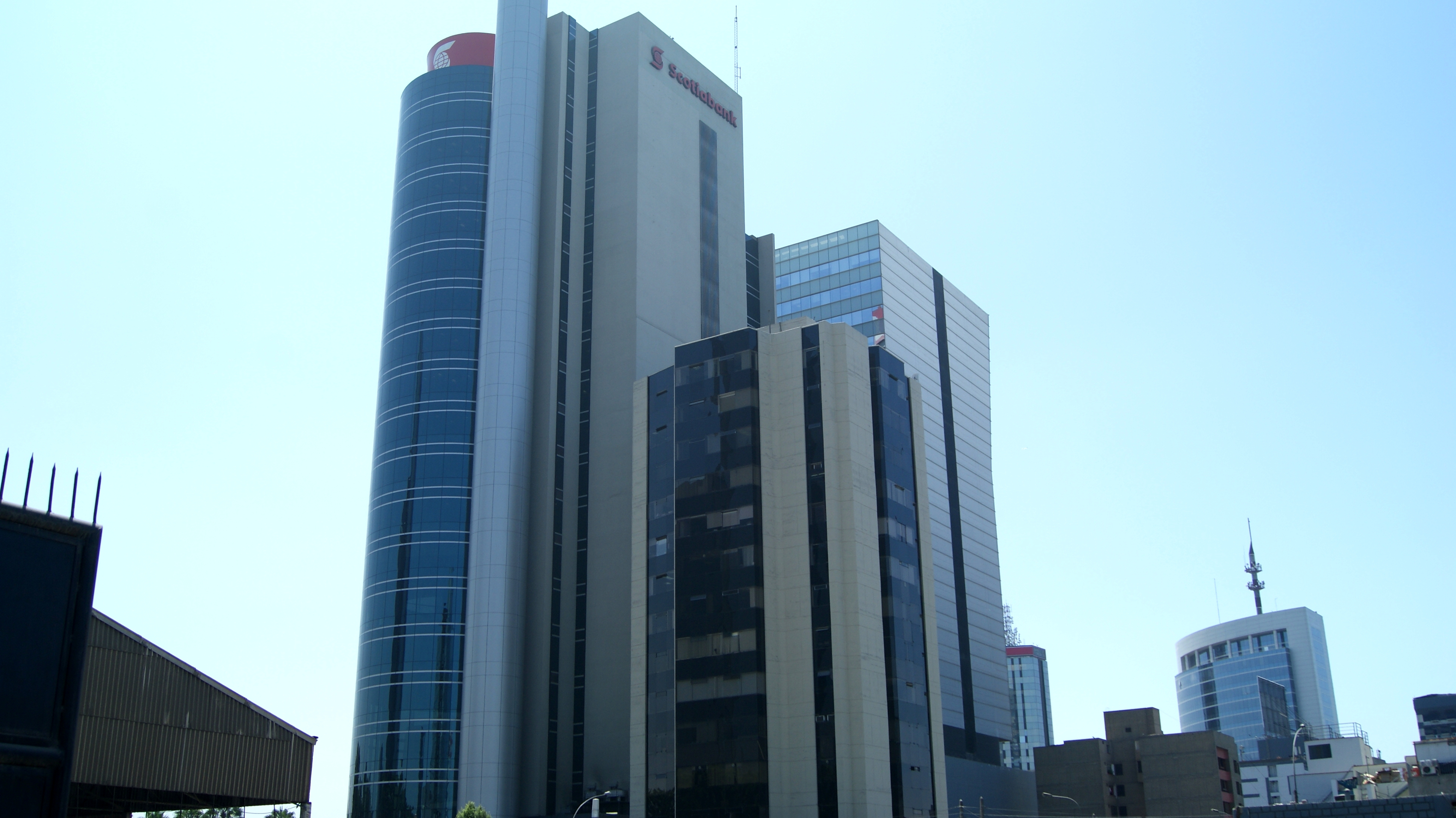 Lima, Peru (San Isidro District). December 2013.